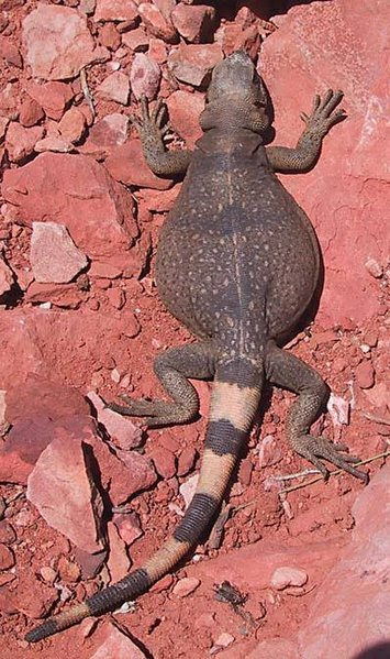 Common Chuckwalla (Sauromalus ater).